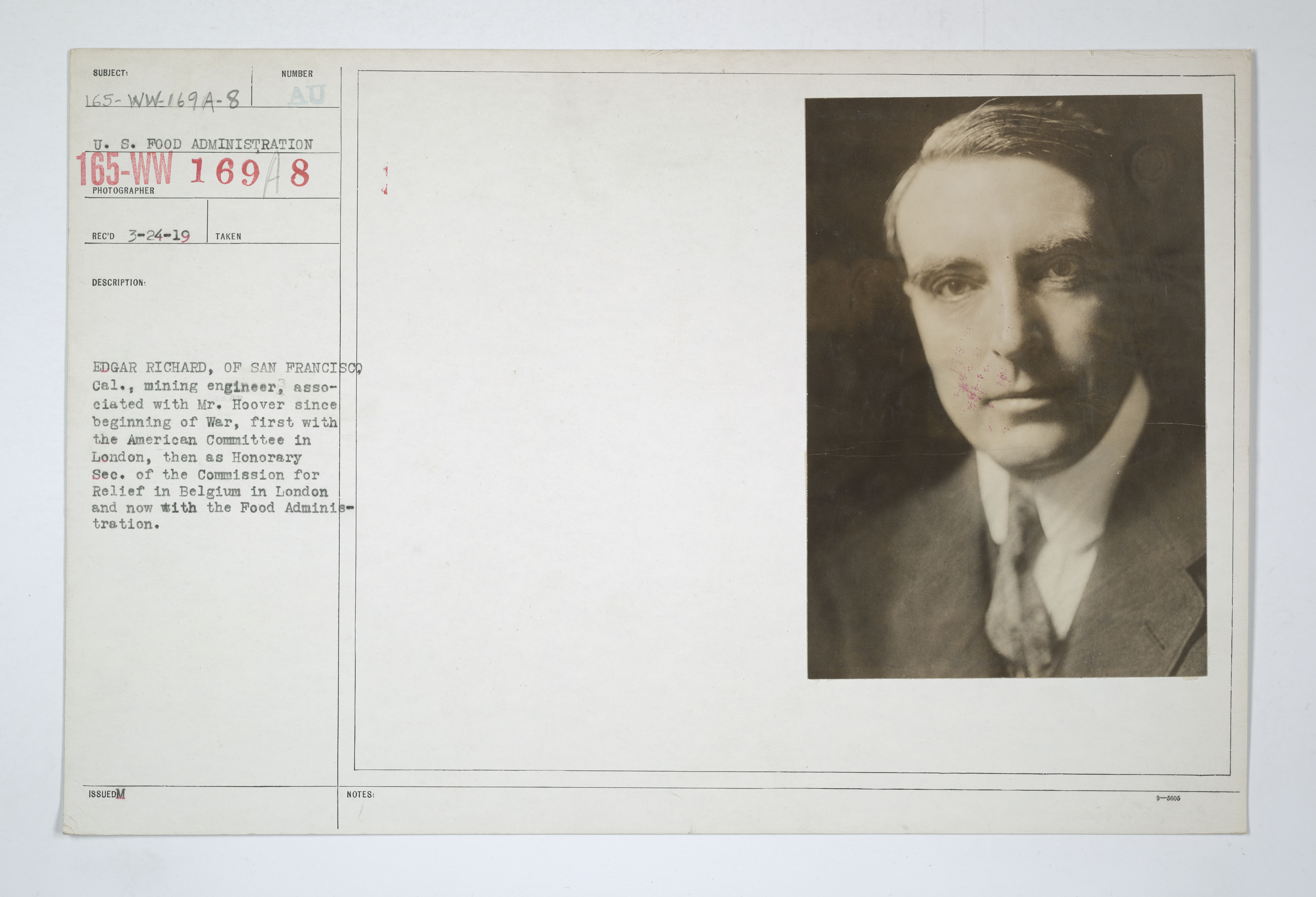 Scope and content: Photographer: U.S. Food Administration